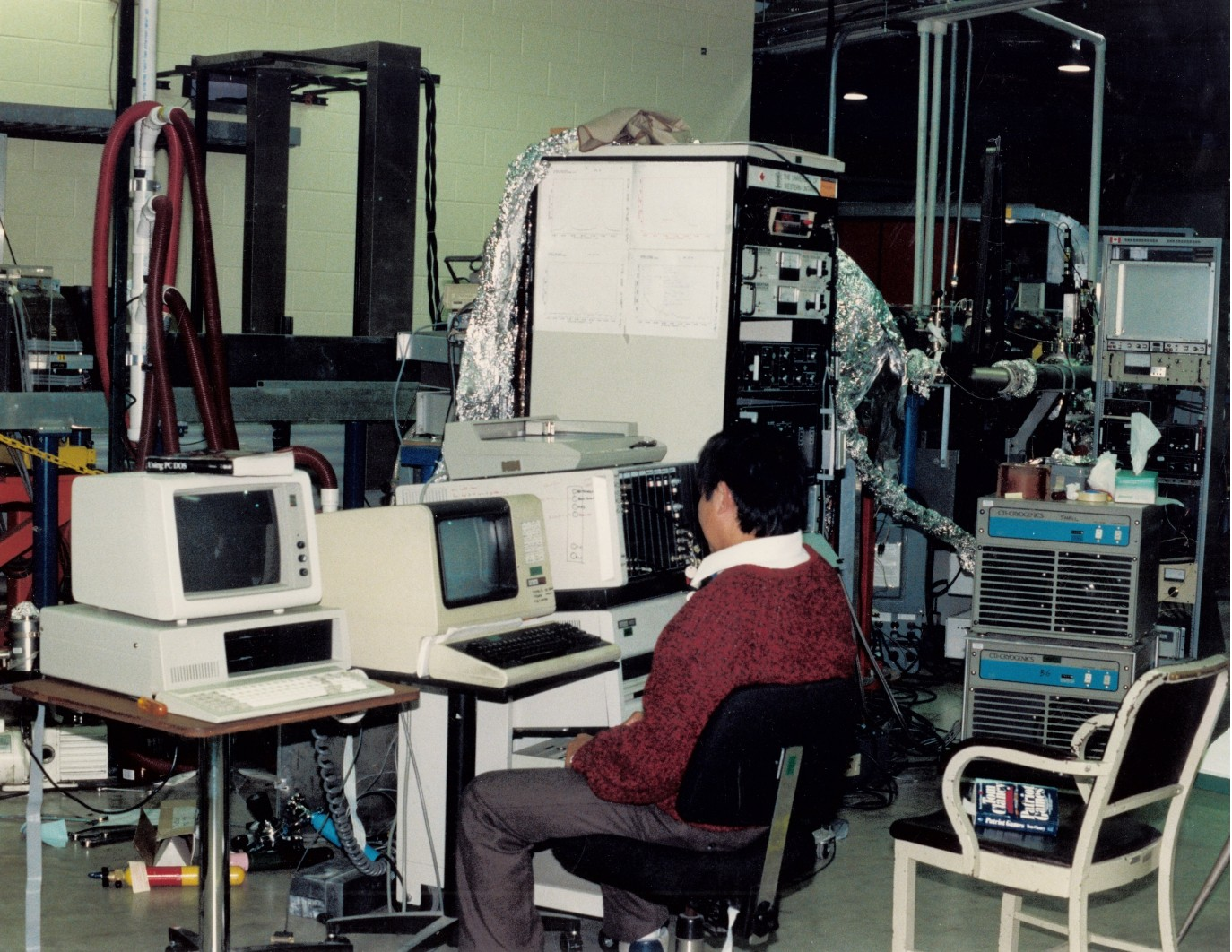 One of the first beamline on the Aladdin synchrotron, seen in the late 1980s